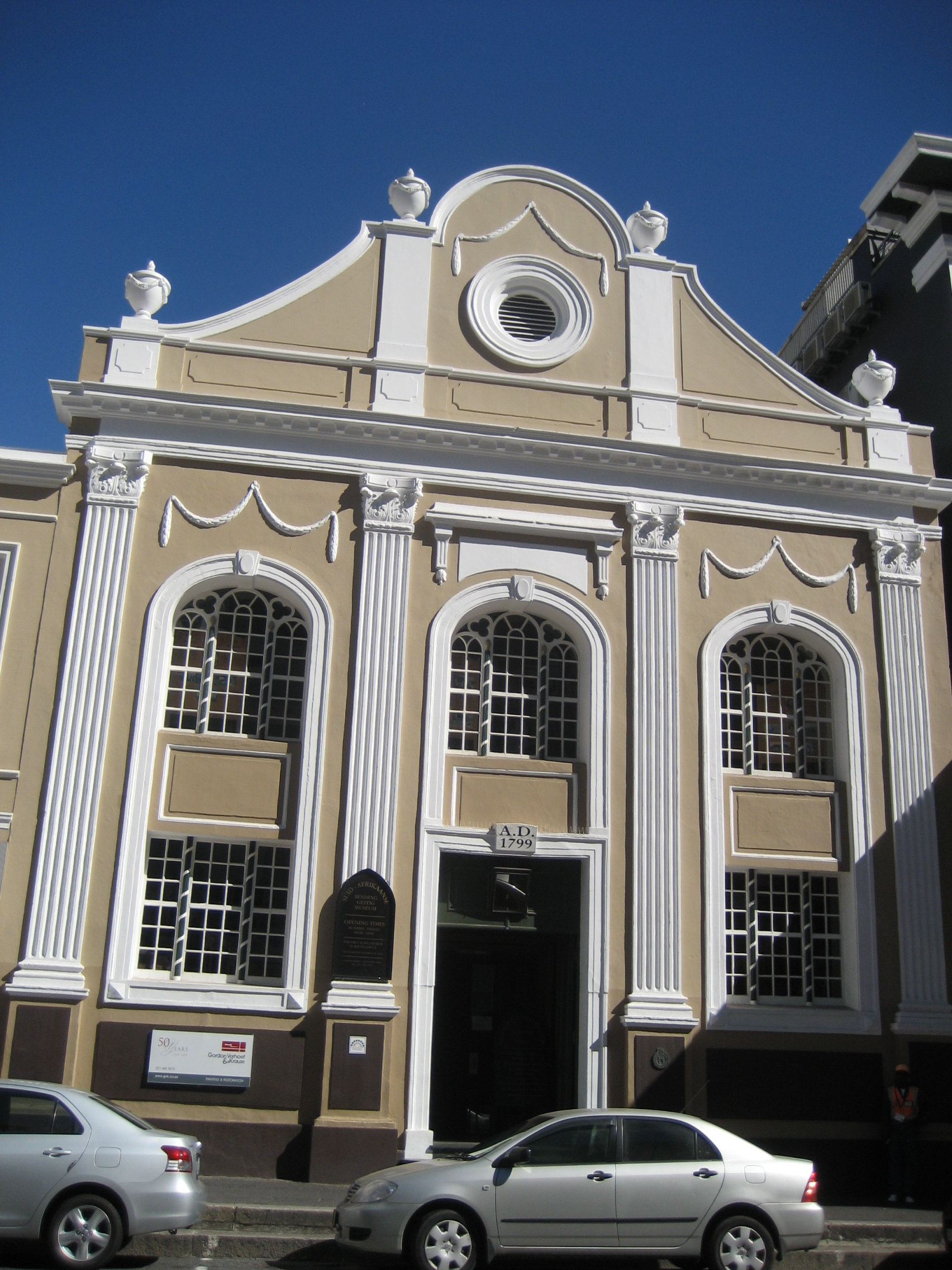 Former South African Slave Church, Long Street 40, Cape Town (South Africa). Founded by Reverend Vos in 1799. Currently: Museum of the history of South African Missionary Work.